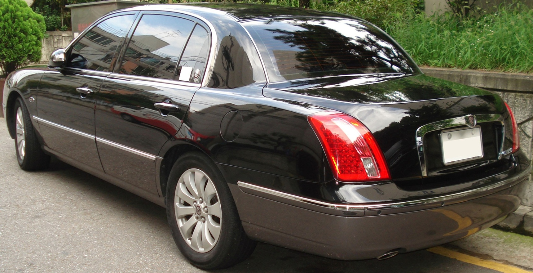 Kia The N.E.X.T Opirus